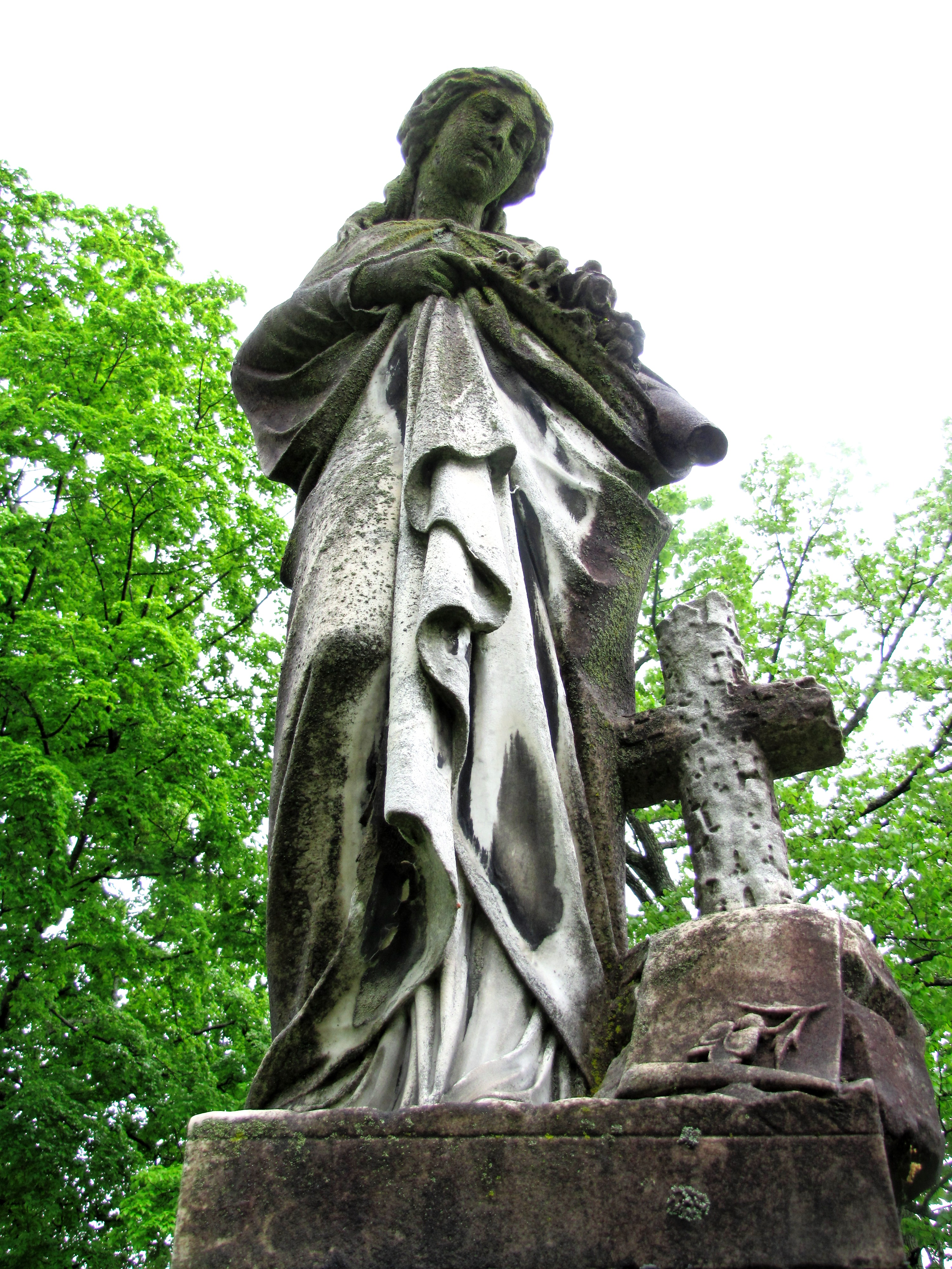 Statue adorning the grave of Ora Brewster (1858–1890) at Old Gray Cemetery in Knoxville, Tennessee, USA.